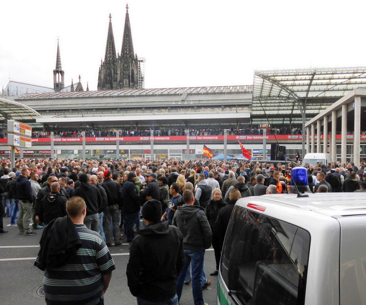 Hooligans gegen Salafisten